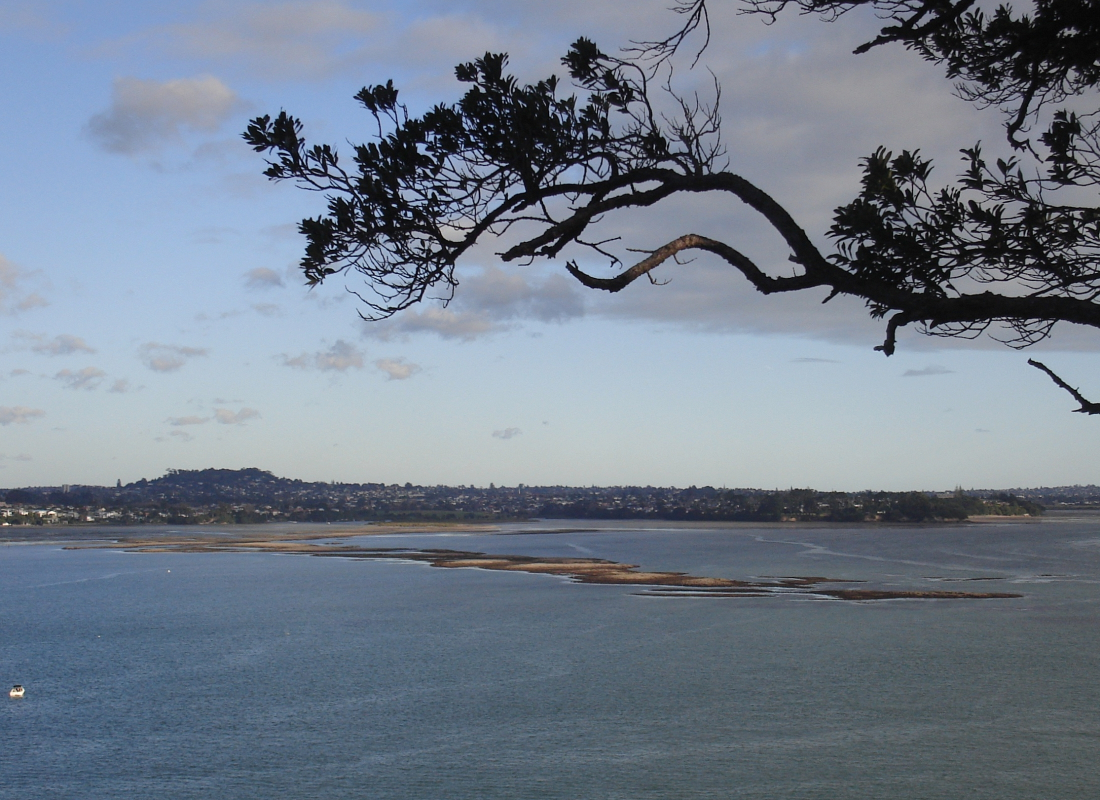 Photograph of Te Tokaroa Reef from Kauri Point, near Kendall Bay, Auckland.